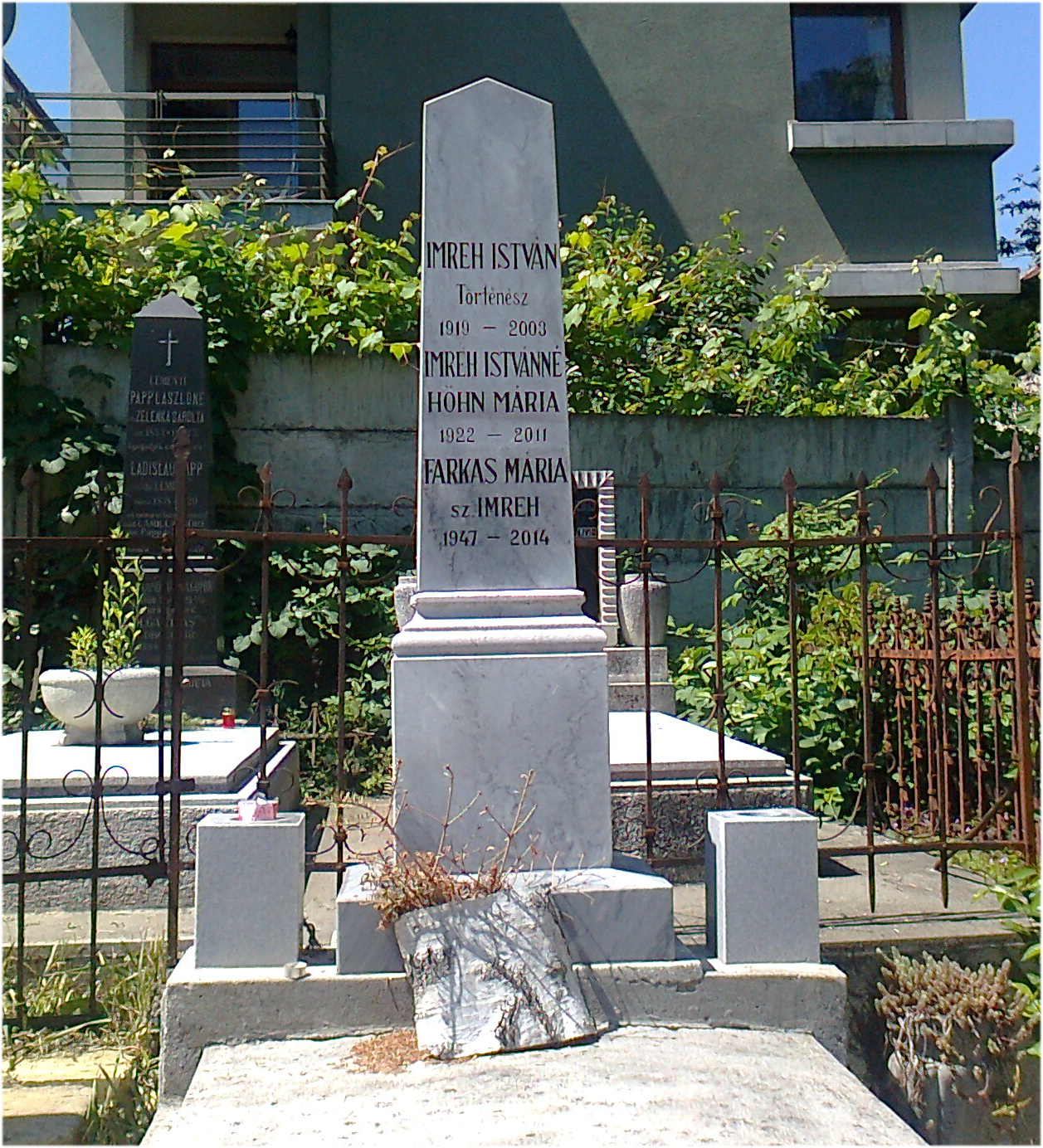 Tomb of Hungarian historian István Imreh (1919-2003) in Cluj Házsongárd Cemetery